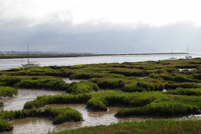 View to Great Cob Island. This is the view across the Saltmarsh on Tollesbury Wick Nature Reserve towards Great Cob Island and West Mersea beyond. The reserve is managed by Essex Wildlife Trust